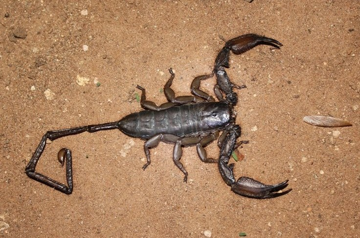 Flat rock scorpion in Madikwe Game Reserve, South Africa